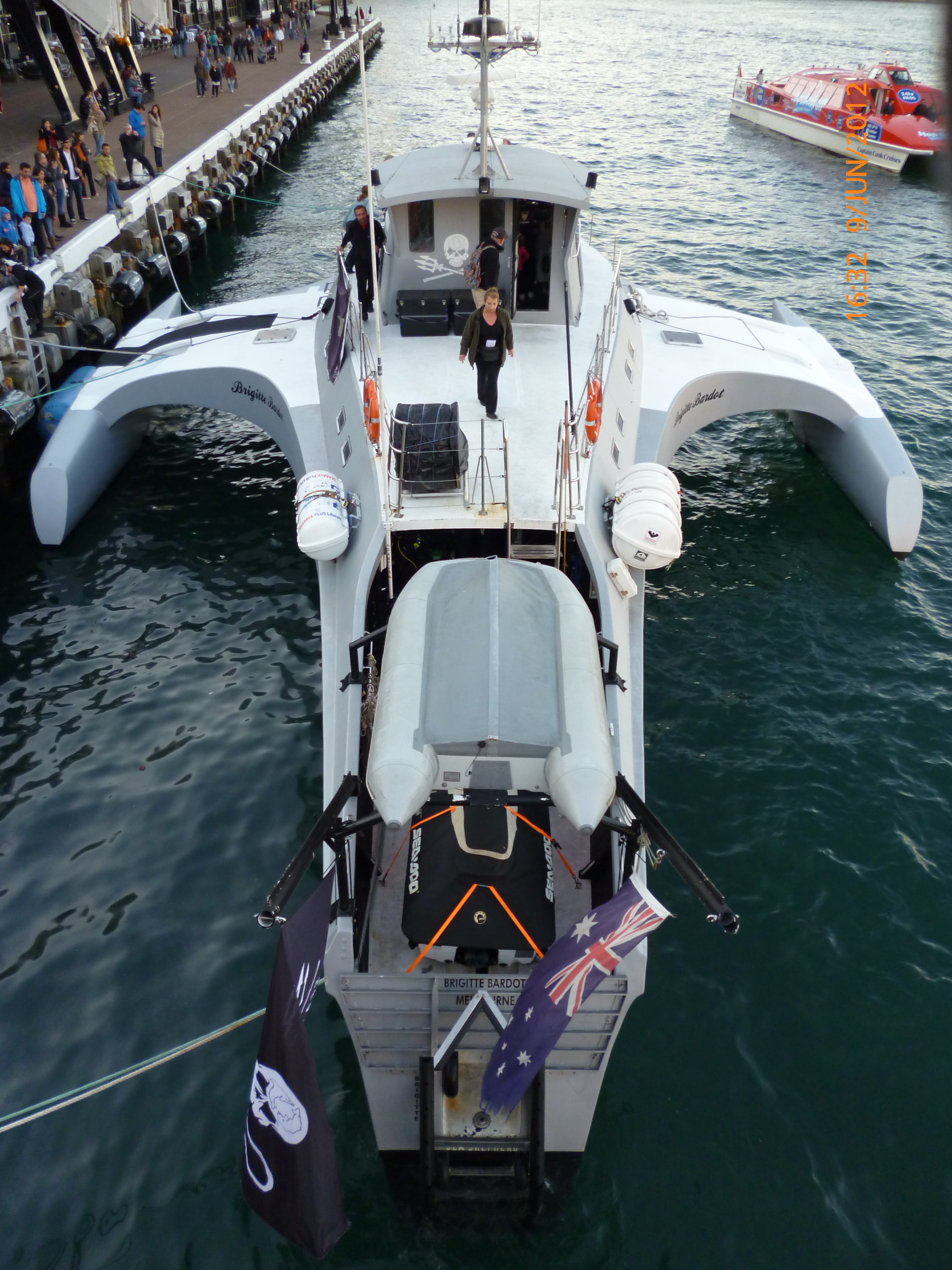 MV Brigitte Bardot at Circular Quay Sydney, stern view from MY Bob Barker's helideck